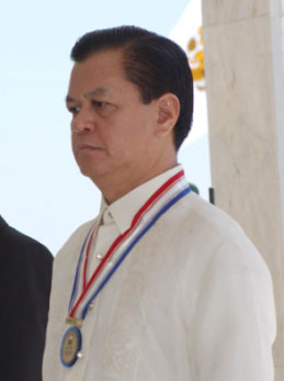 Vice President of the Philippines Noli de Castro. Cropped from public domain image image at the website of the United States embassy in Manila.